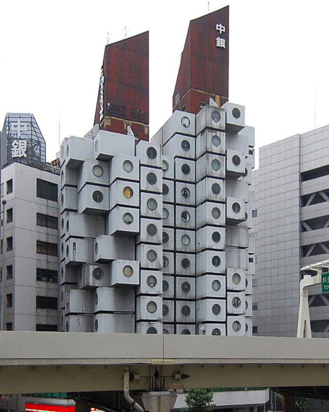 Nakagin Capsule Tower, at Shinbashi Tokyo Japan, design by Kisho Kurokawa in 1972.